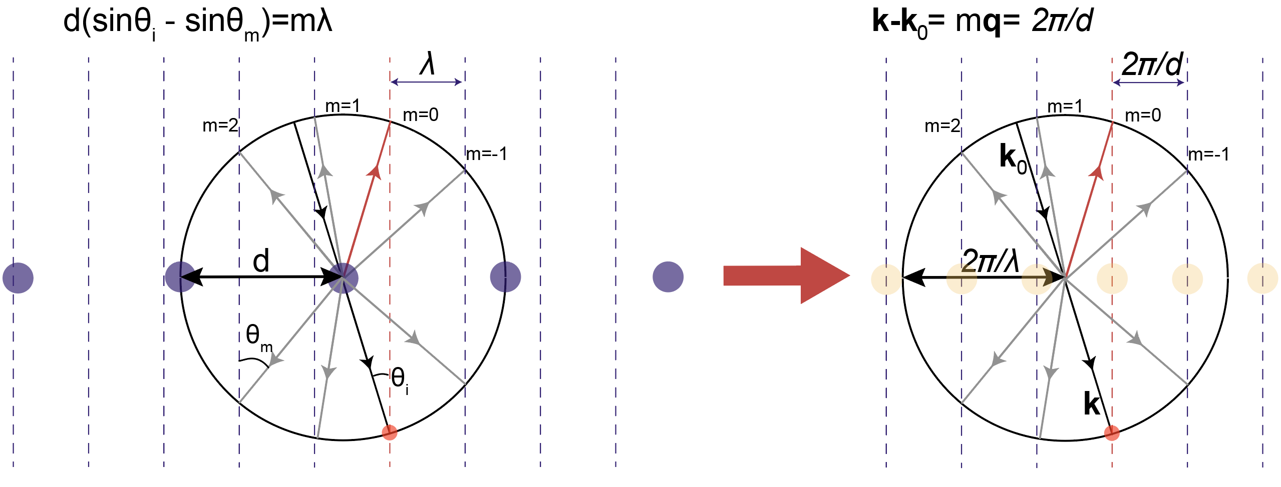 Дифракция на одномерной решетке, два рассмотрения